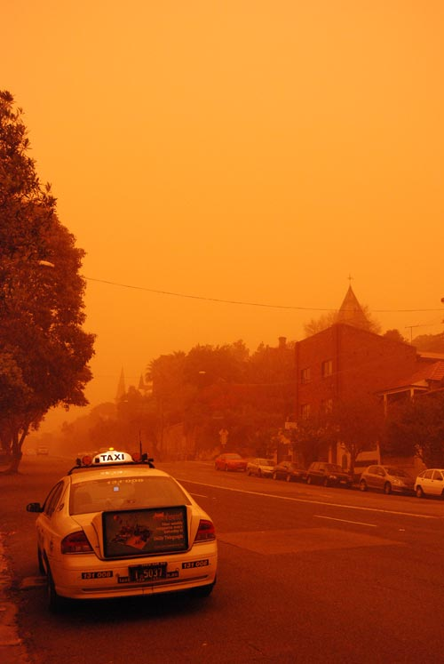 Photos of the Sydney dustocalypse (23 Sept 09)